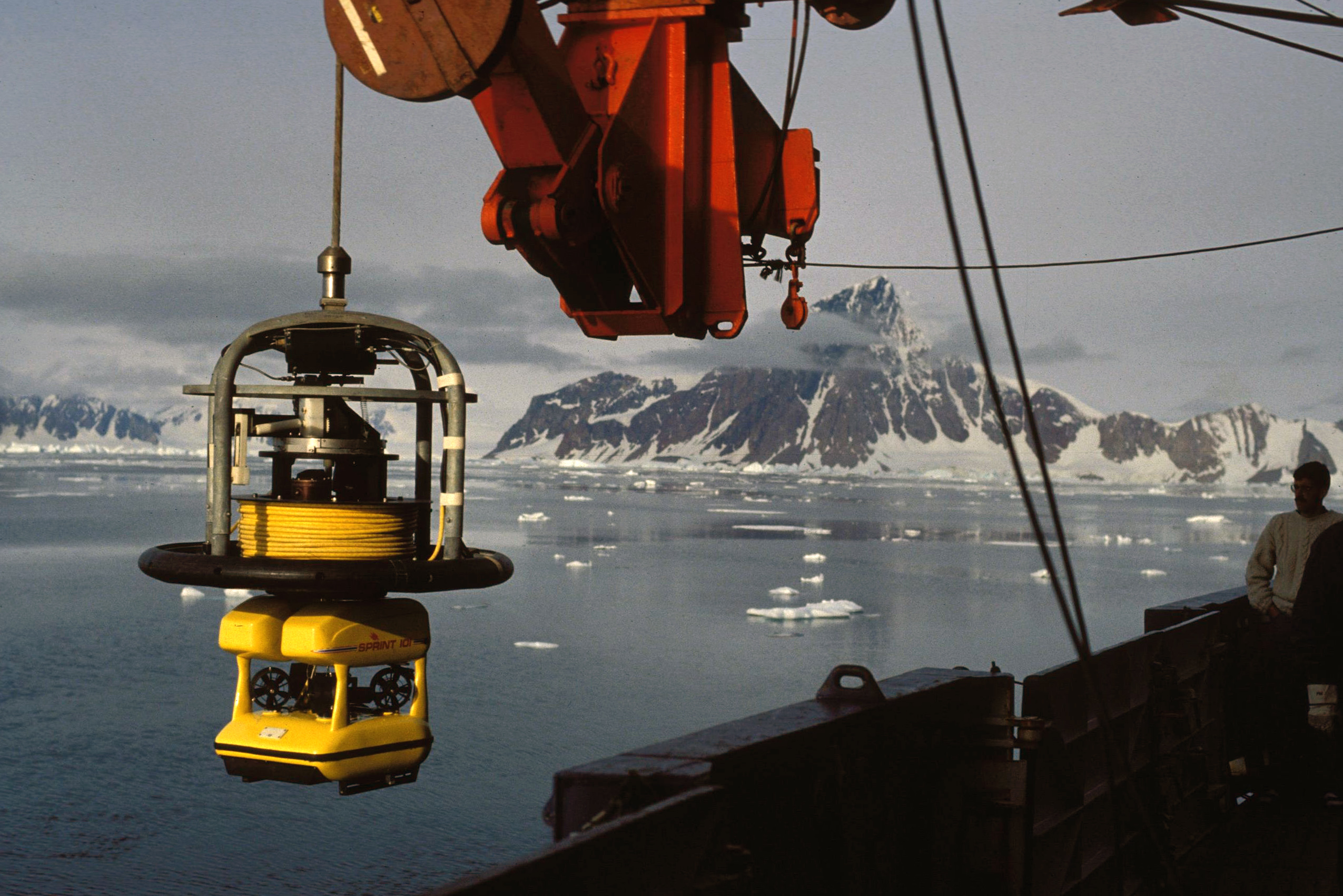 Remote operated vehicle (ROV) to take images from the ocean floor ; operation during a cruise of RV POLARSTERN (ANT-XI/3) in Paradise Bay, Antarctic Peninsula